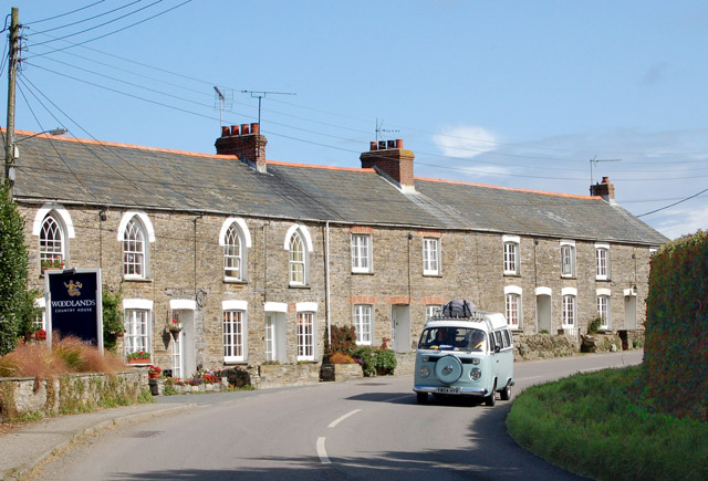 Cottages at Treator Looking east at a fine row of cottages beside the B3276 at Treator, a mile west of Padstow.